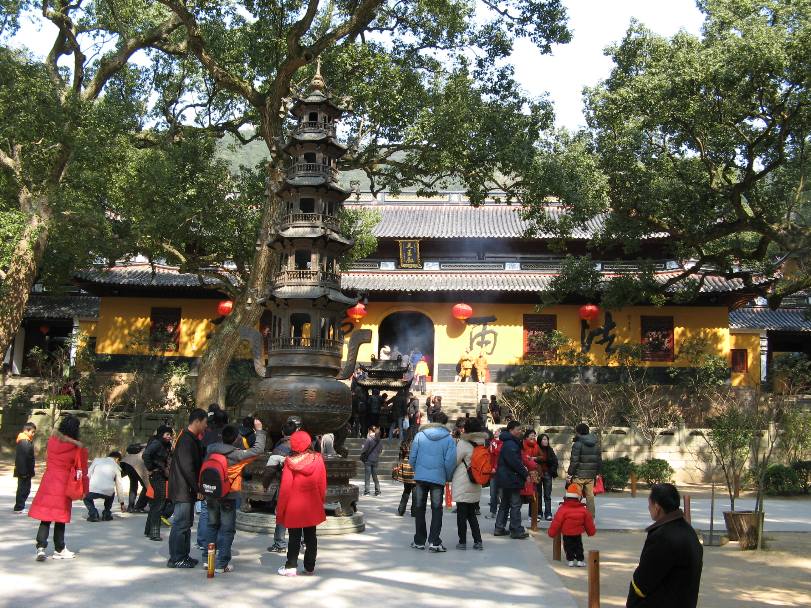 Fayu Temple, or the Back Temple as opposed to the Front Temple (Puji Temple), is the second of its kind in the sacred Guanyin Mt. Putuo.